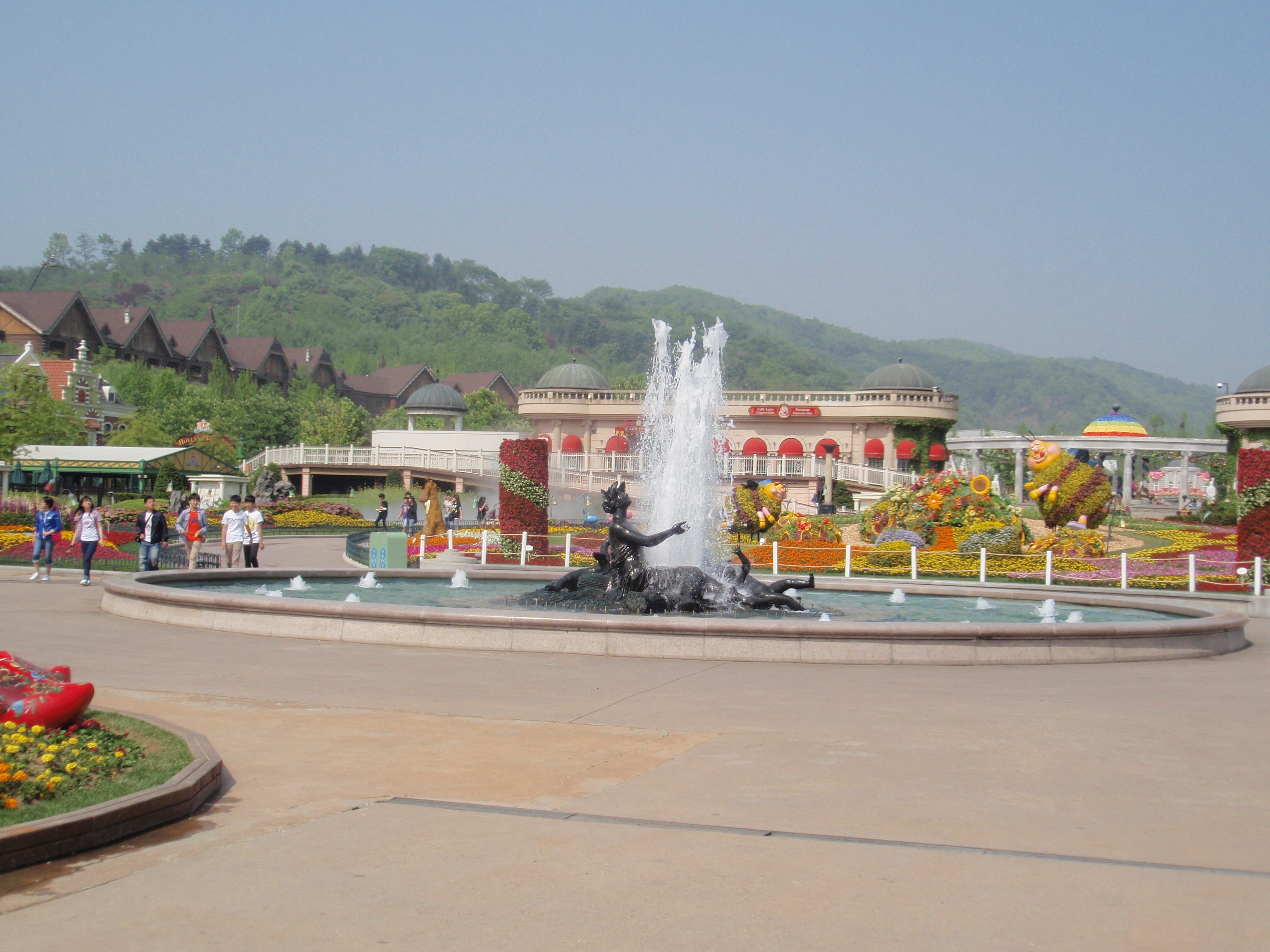 everland, Themepark in south korea